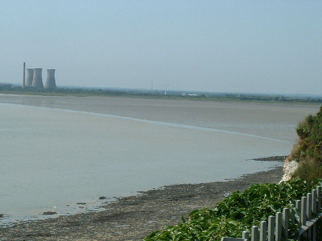 Cliff Tops and Foreshore at Pegwell. Views of Pegwell Bay and the now decommissioned Richborough Power Station